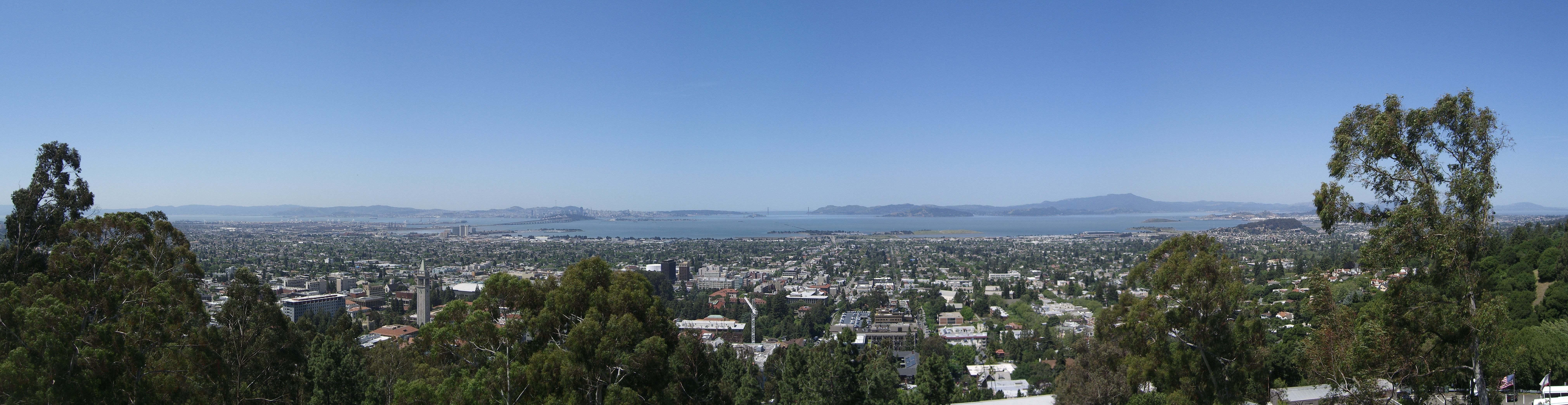 The Golden Gate Bridge on May 7, 2007, as seen from Lawrence Berkeley Labs. Berkeley is in the lower center, San Francisco is in the upper Left, and Oakland is in the lower left, and Richmond is in the mid right.